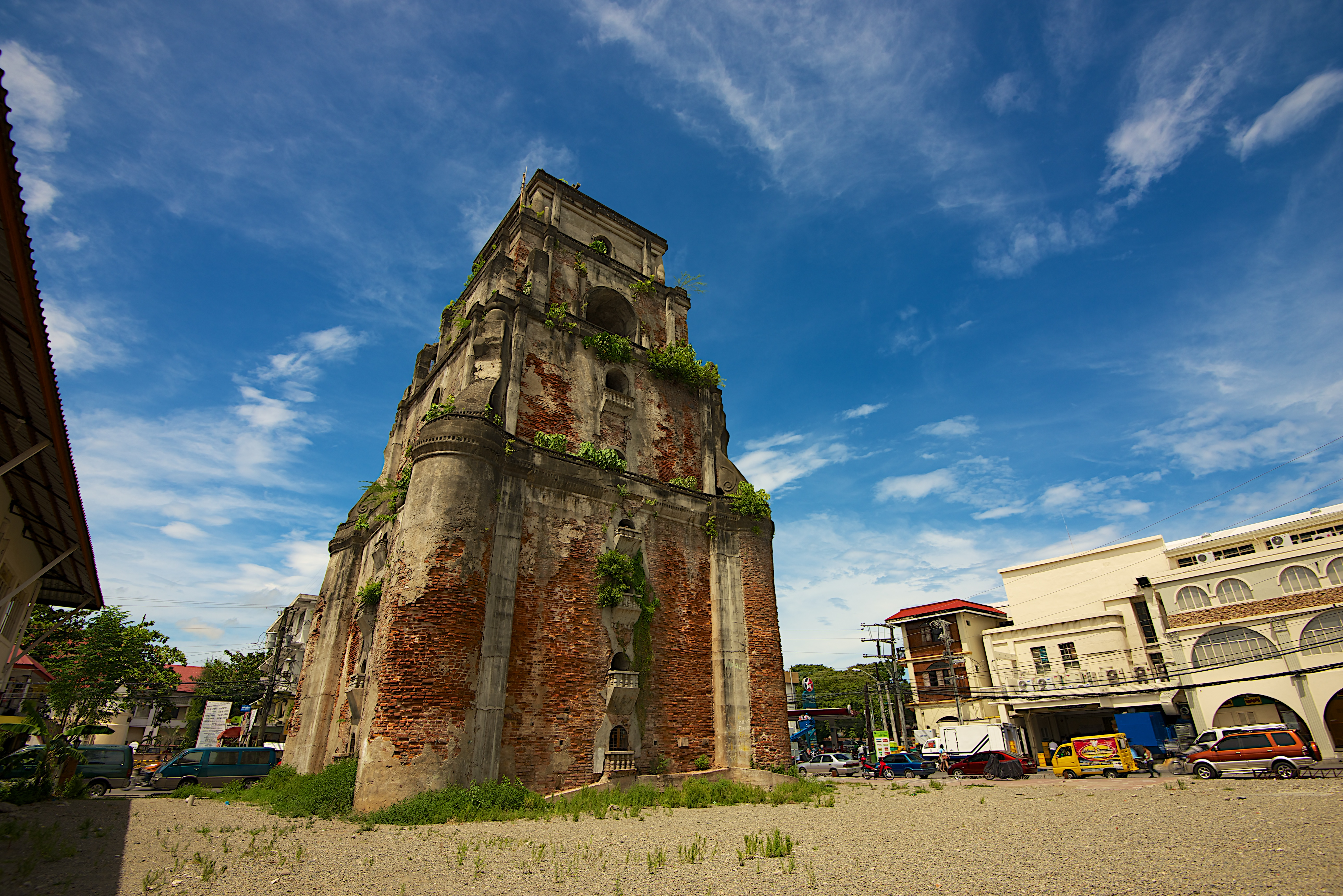 The Laoag church with the right amount of sunrise bathing the facade. A classic example of how an old monument thrives in the middle of modernization.